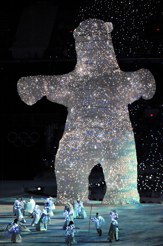 The Kermode or Spirit Bear, the official animal for this year's games, looms large at the Opening Ceremony of the XXI Olympic Winter Games, Feb. 12, 2010, at BC Place stadium in Vancouver, British Columbia, Canada.